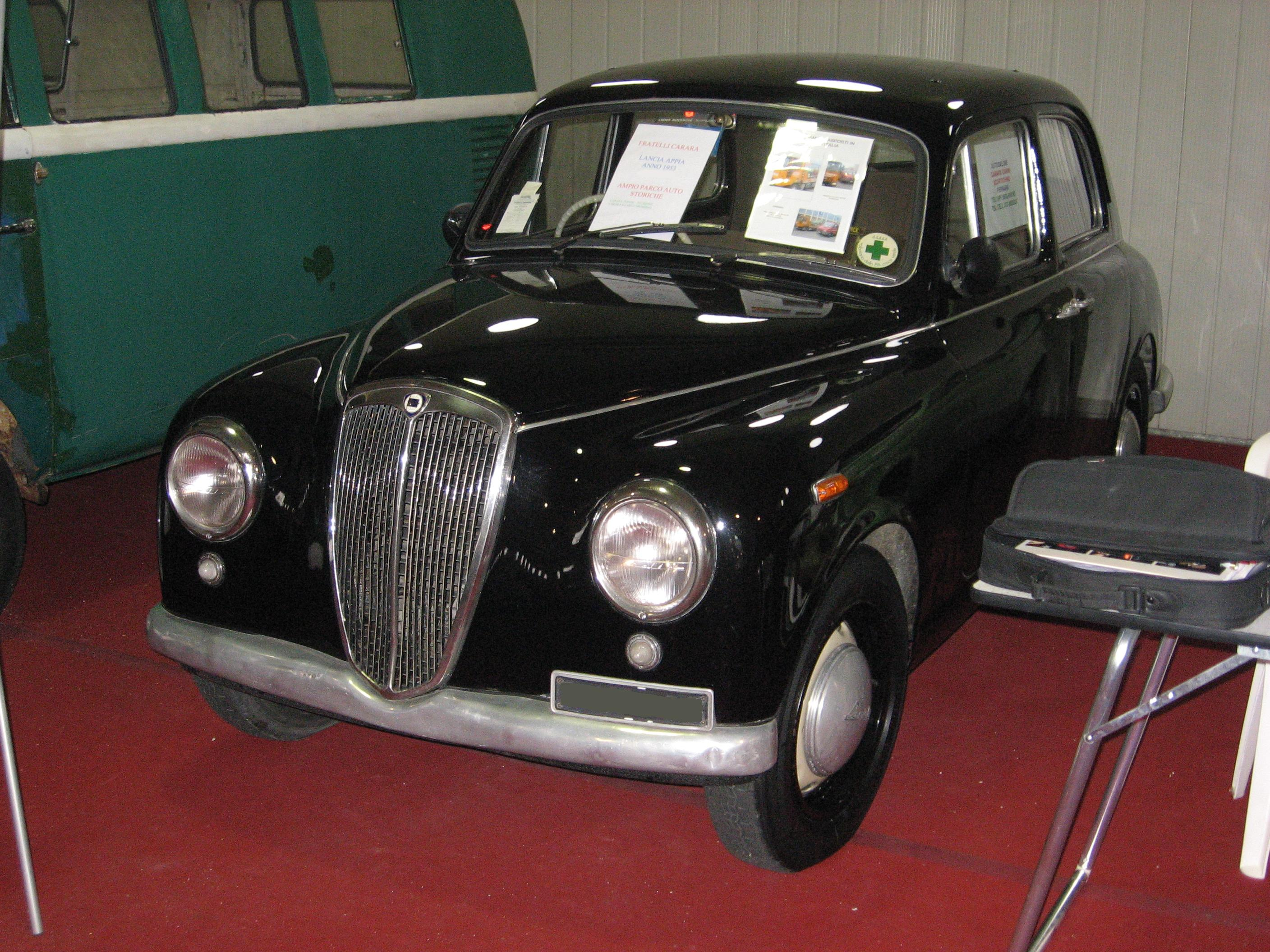 Subject:Lancia Appia Mk1 (1953) Author:Luc106 Date:November 24th, 2007 Event:Markè-Retro Place/Country:Cesena (FC), Italy I release all rights in the public domain.